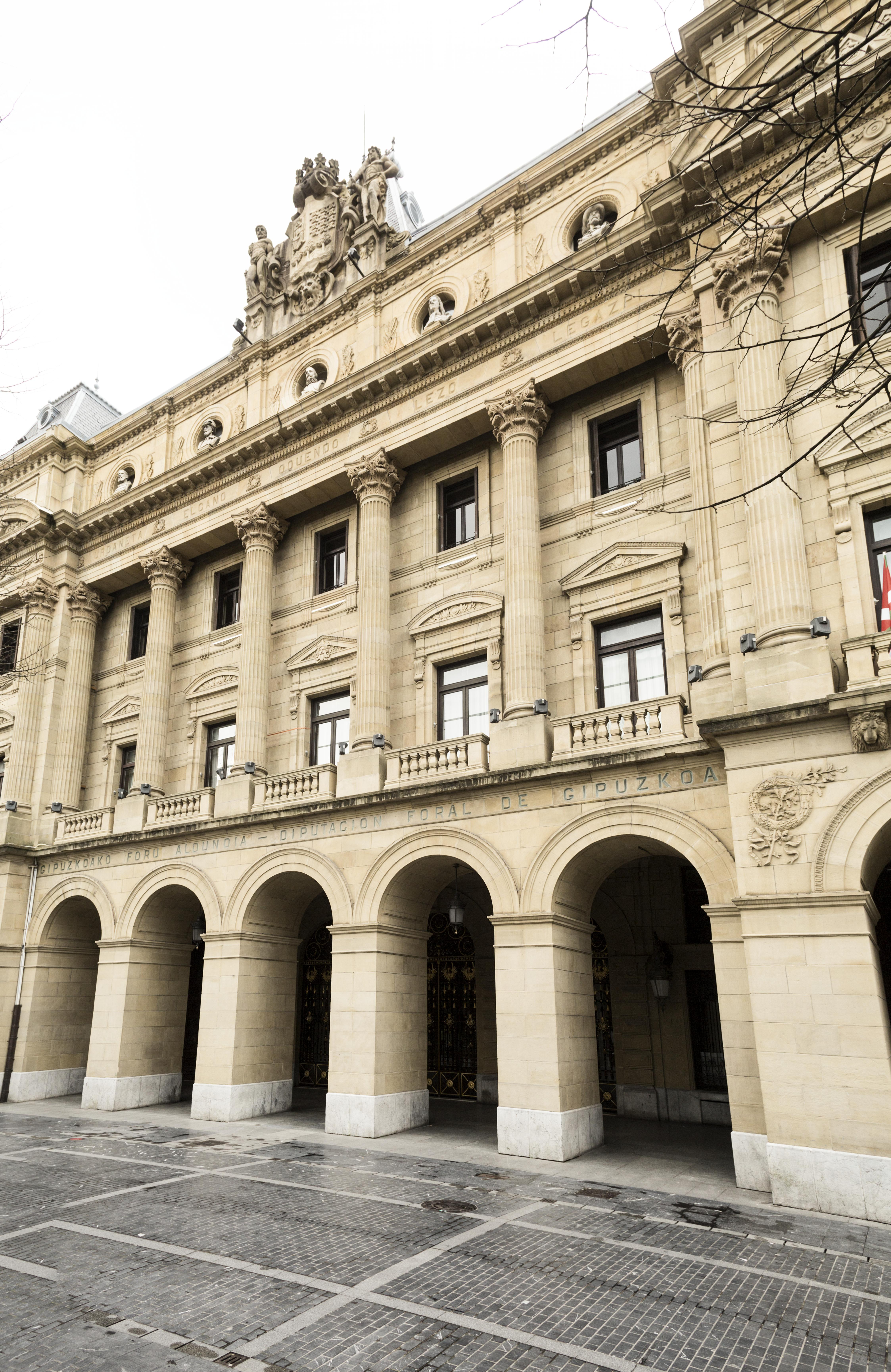 Front of the Provincial Palace of Gipuzkoa